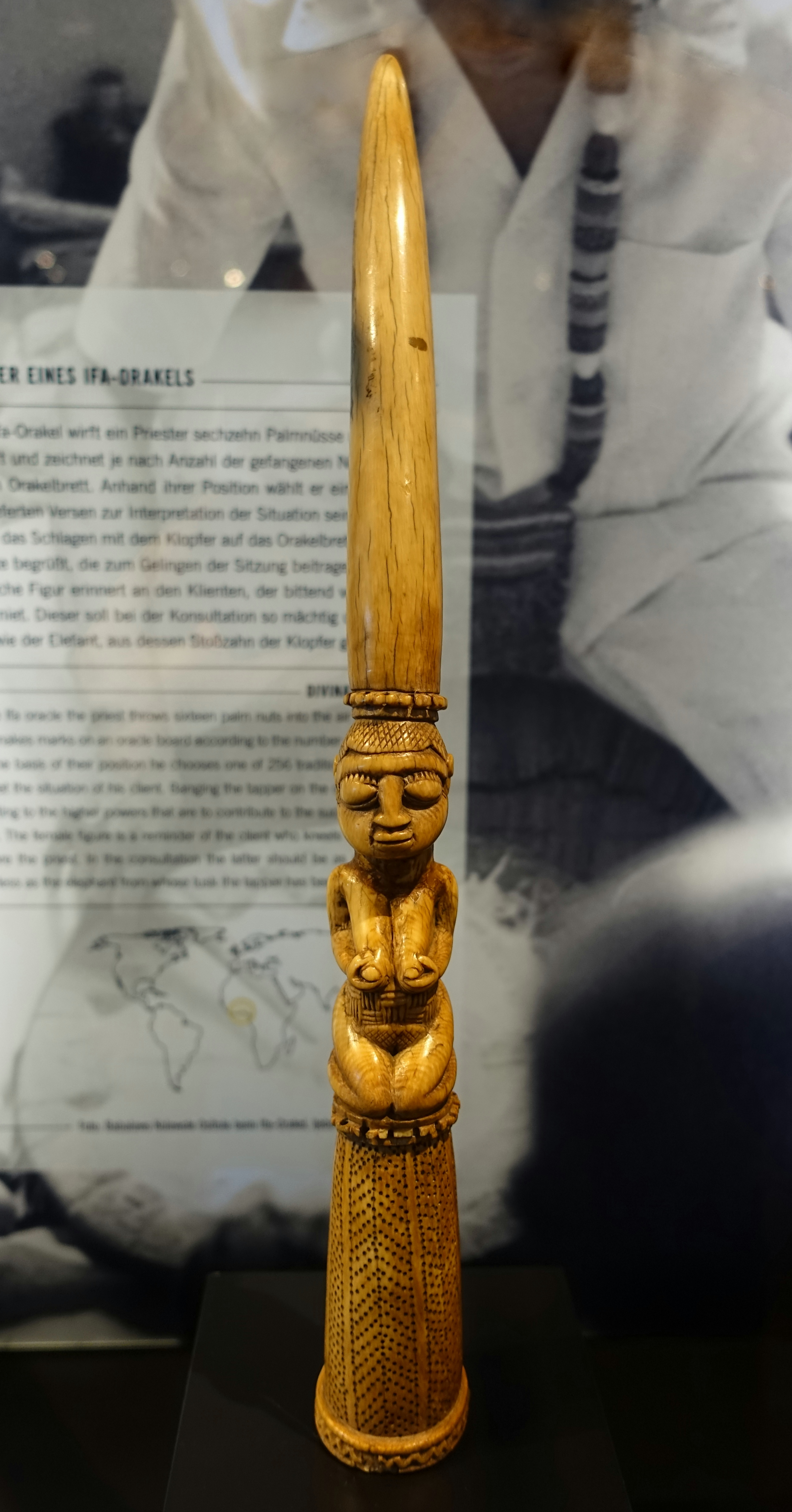 Exhibit in the Rautenstrauch-Joest-Museum - Cologne, Germany.